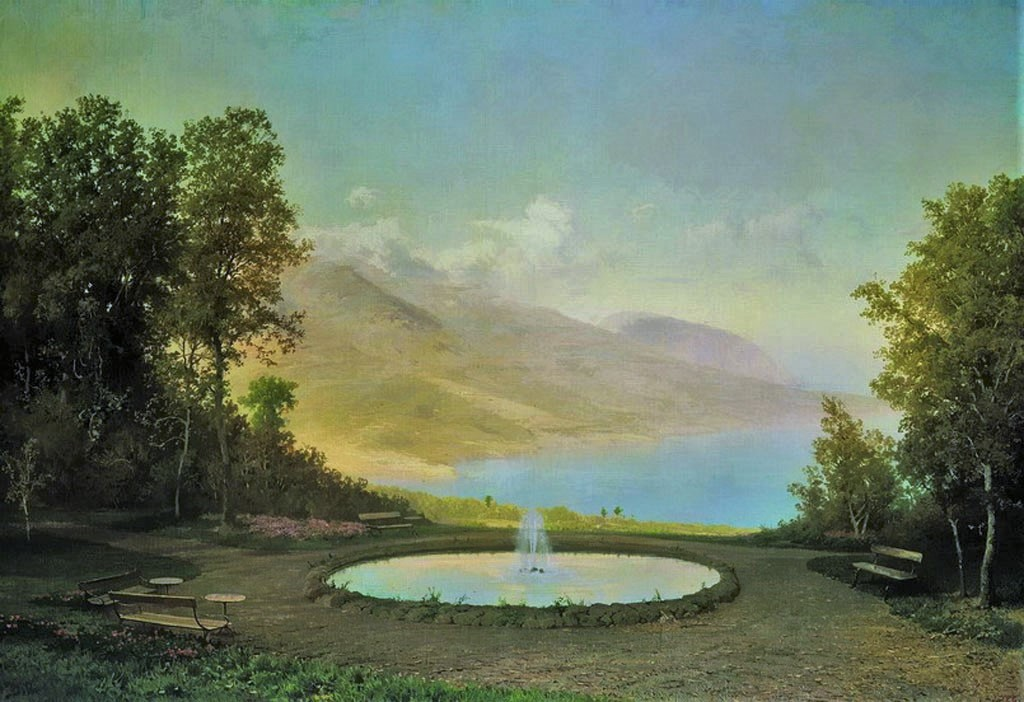 Eriklik the Fountain (Crimea) (painting by Fyodor Vasilyev, 1872)